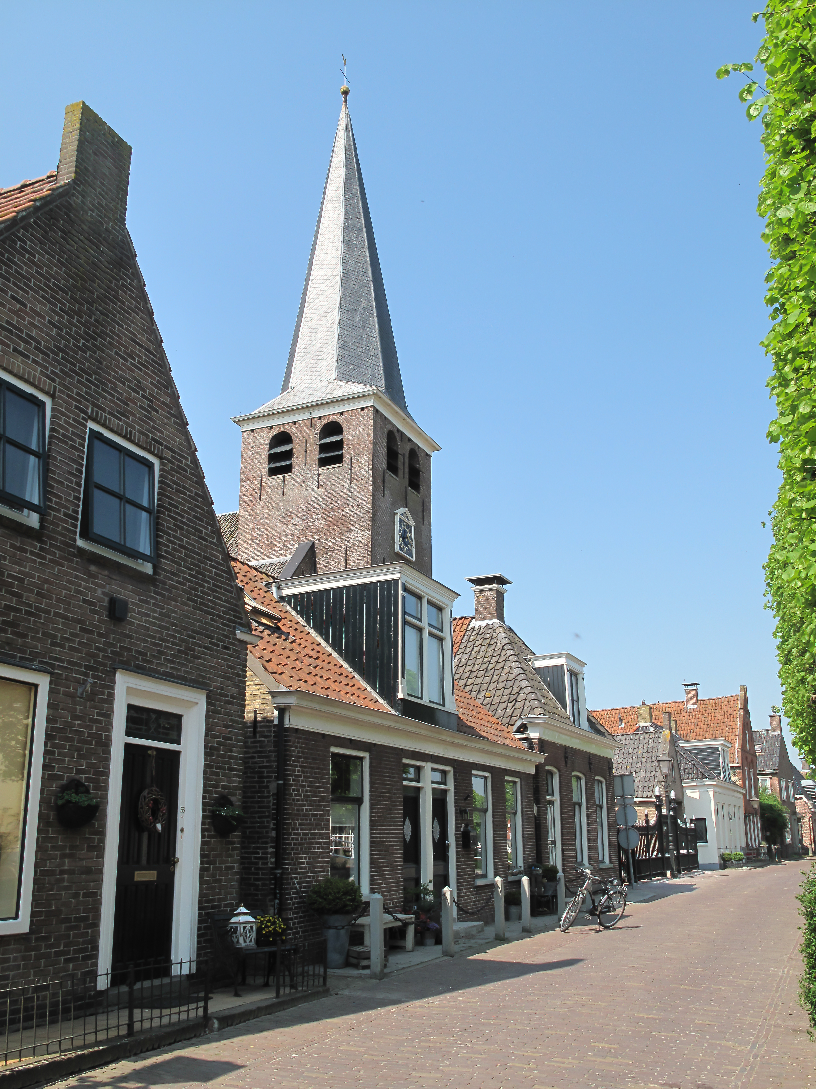 IJlst, church: de Mauritiuskerk